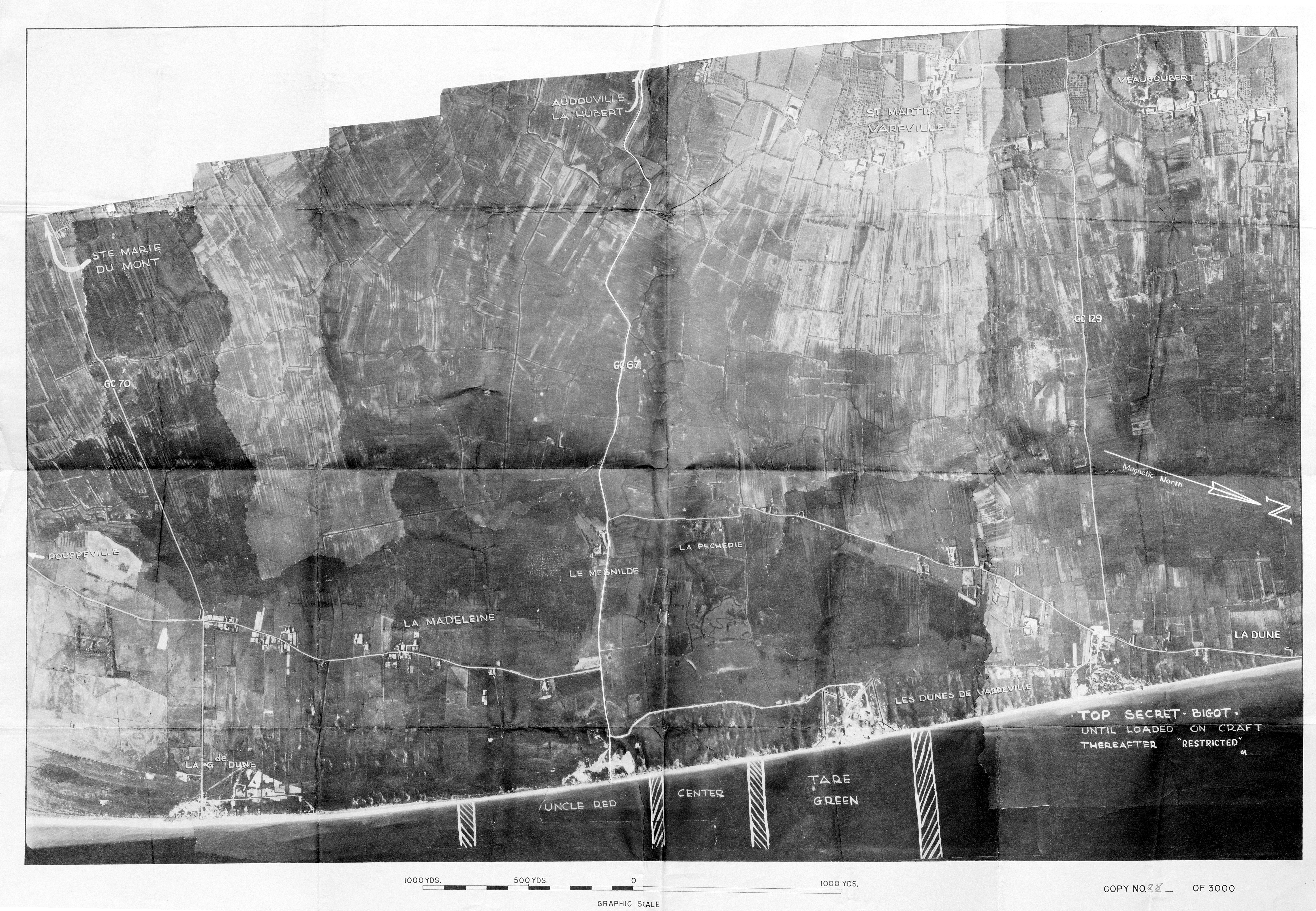 As carried up the beach by Lt Col Paul W Steinbeck